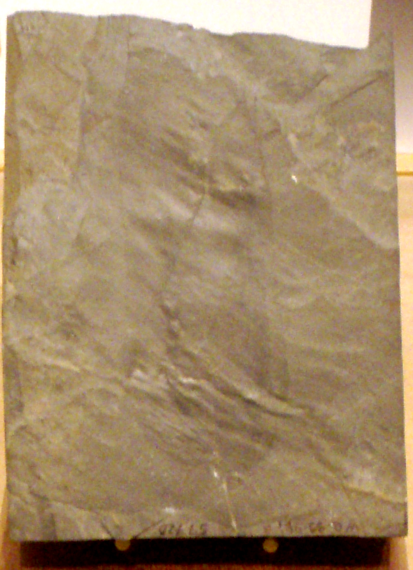 Speciman of Odontogriphus, on display at the Royal Ontario Museum, Toronto.